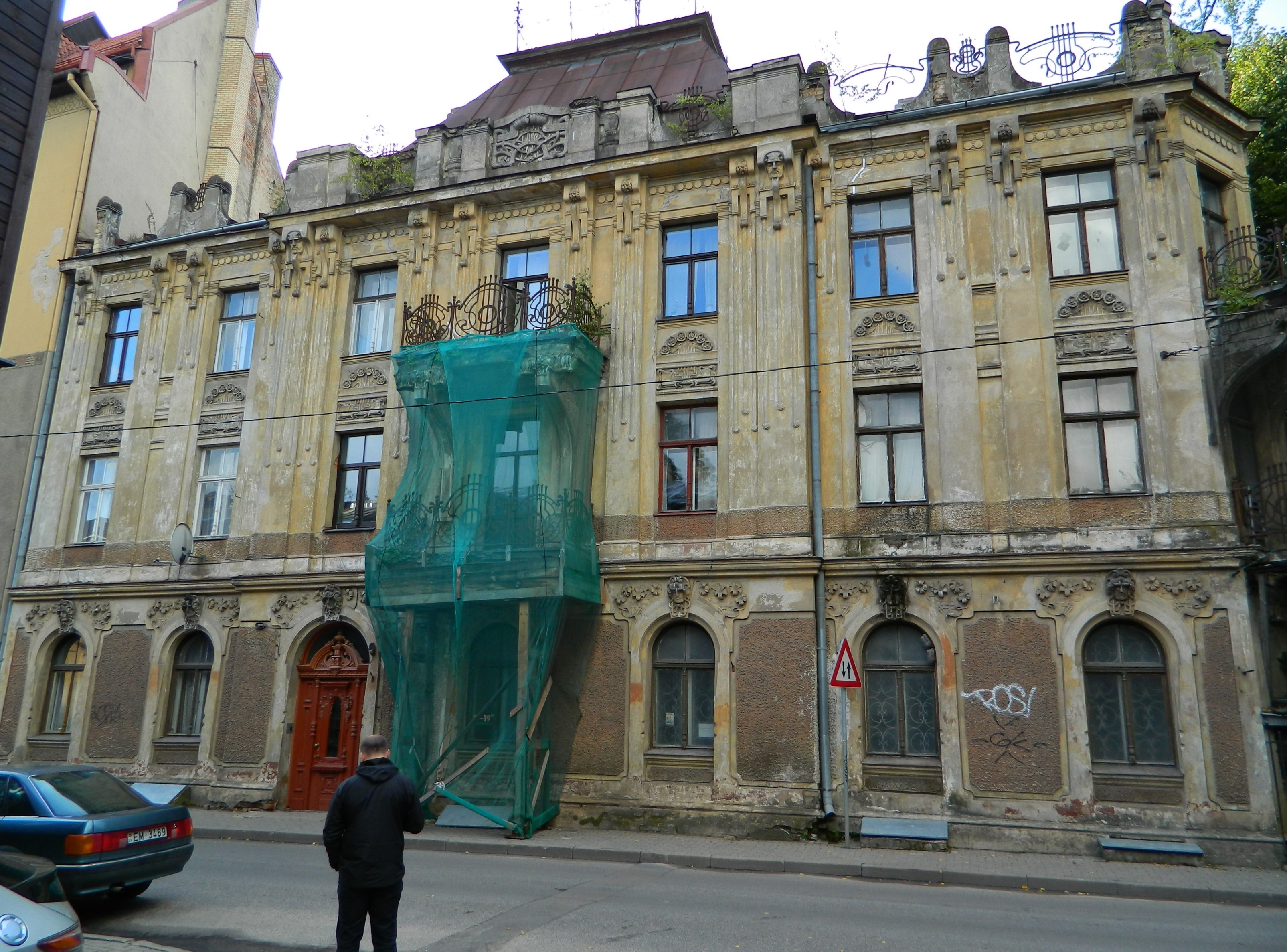 tenement house